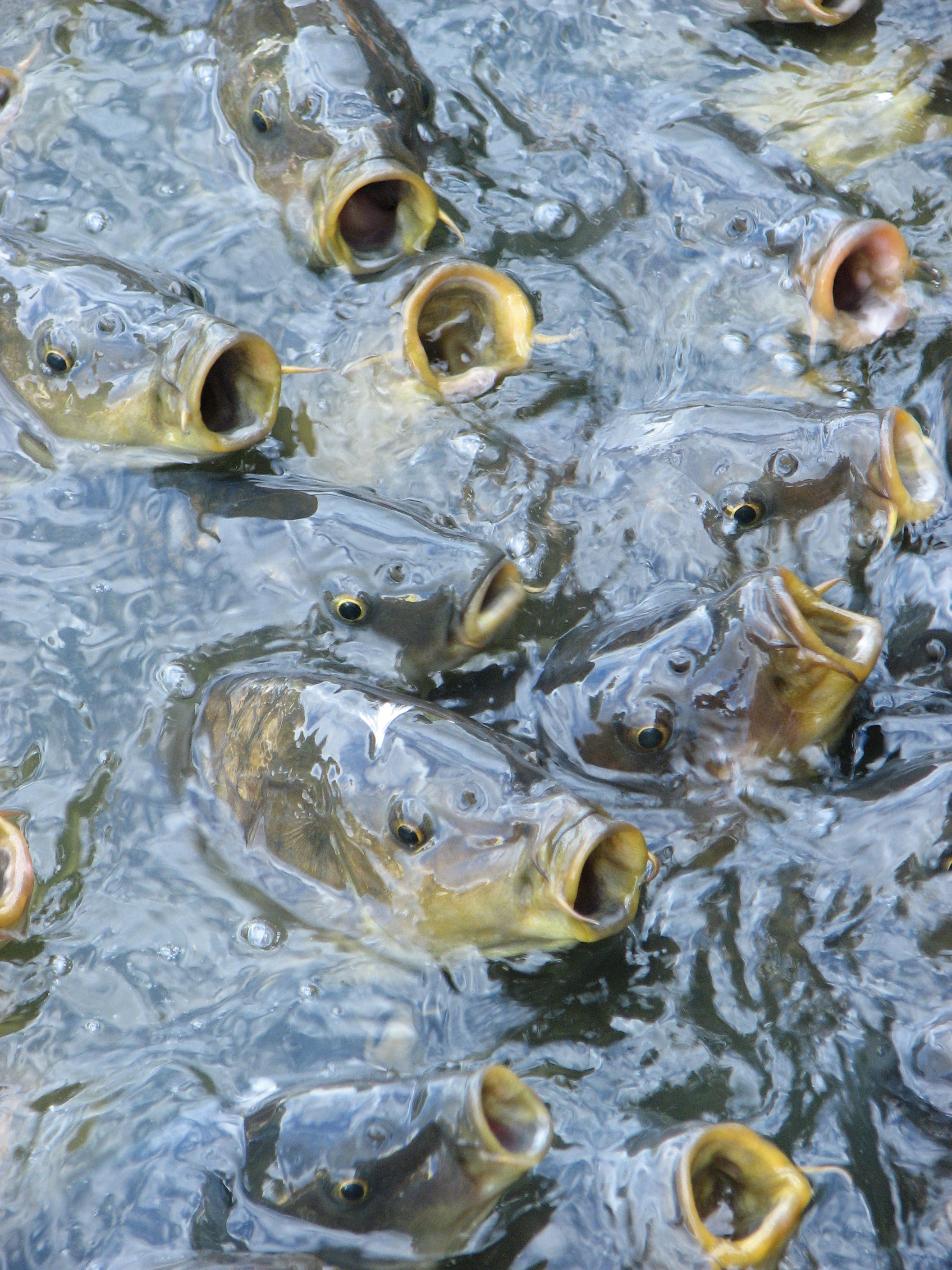 Unidentified species of fish feeding at the top of the water.